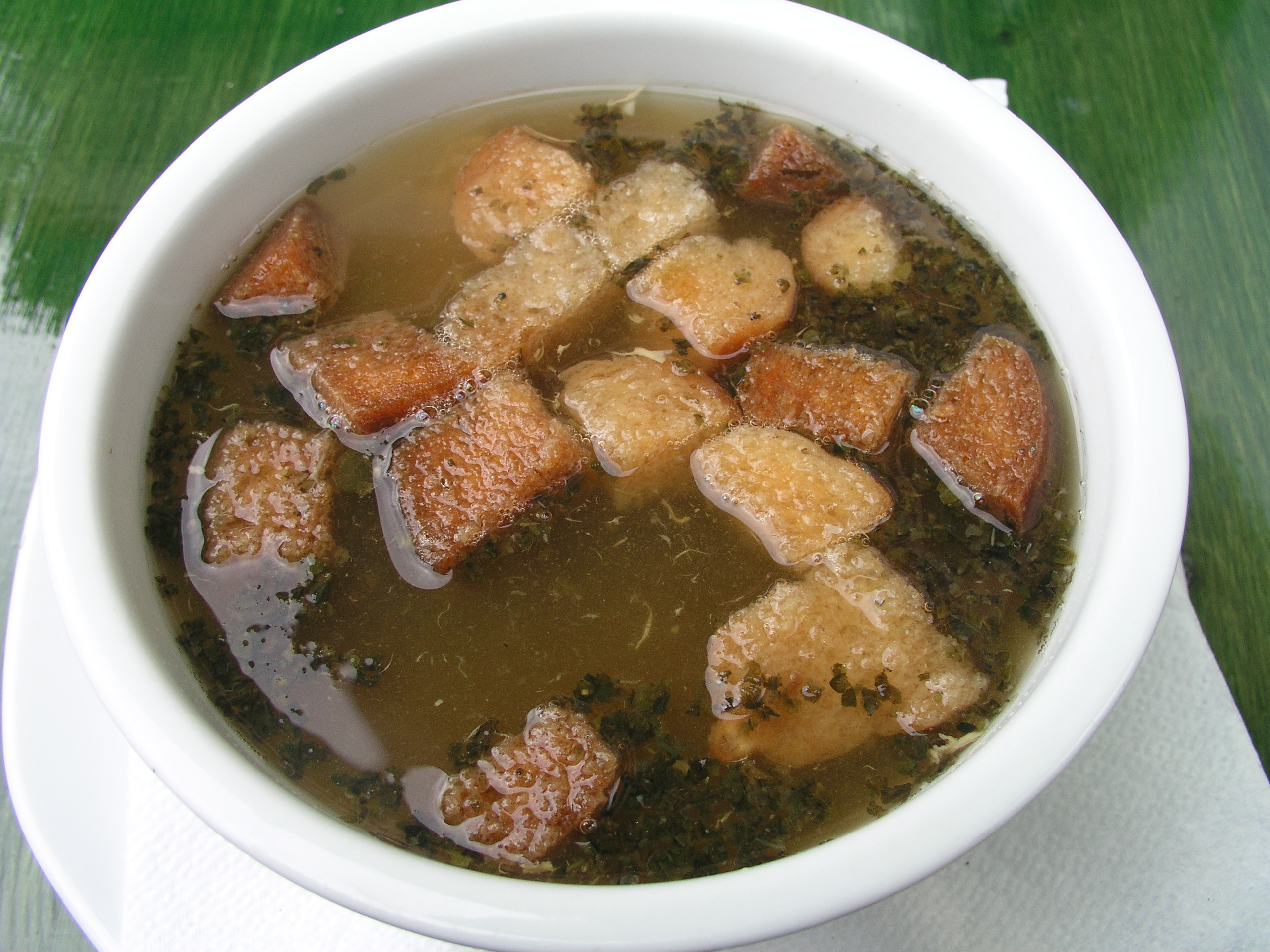 Czech garlic soup with potatoes, cheese, mushrooms and bread croutons